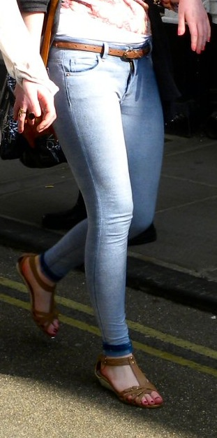 A mother in jeans and a daughter in jeggings walk down the road.